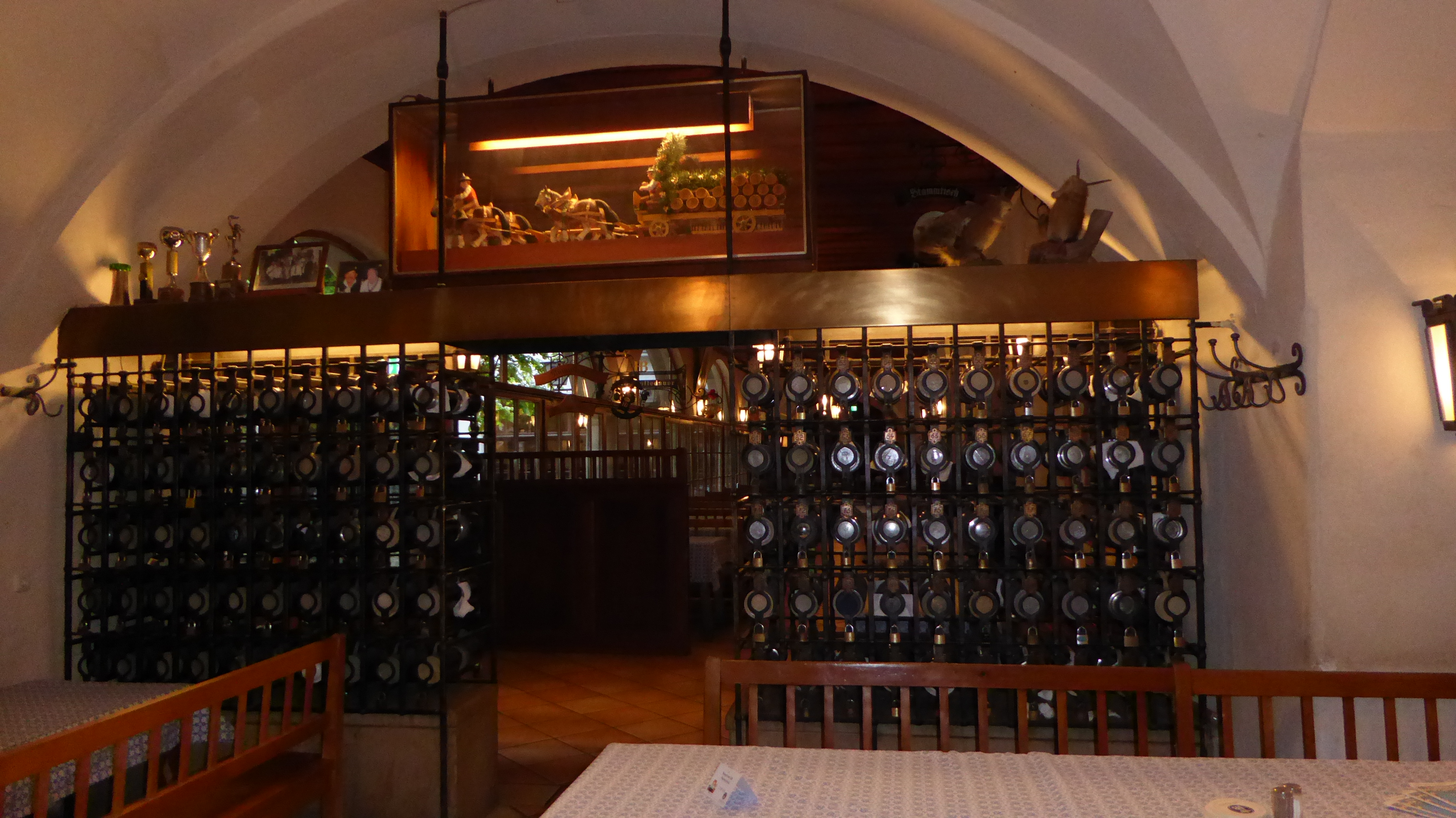 Yard Brew House, Munich, Germany